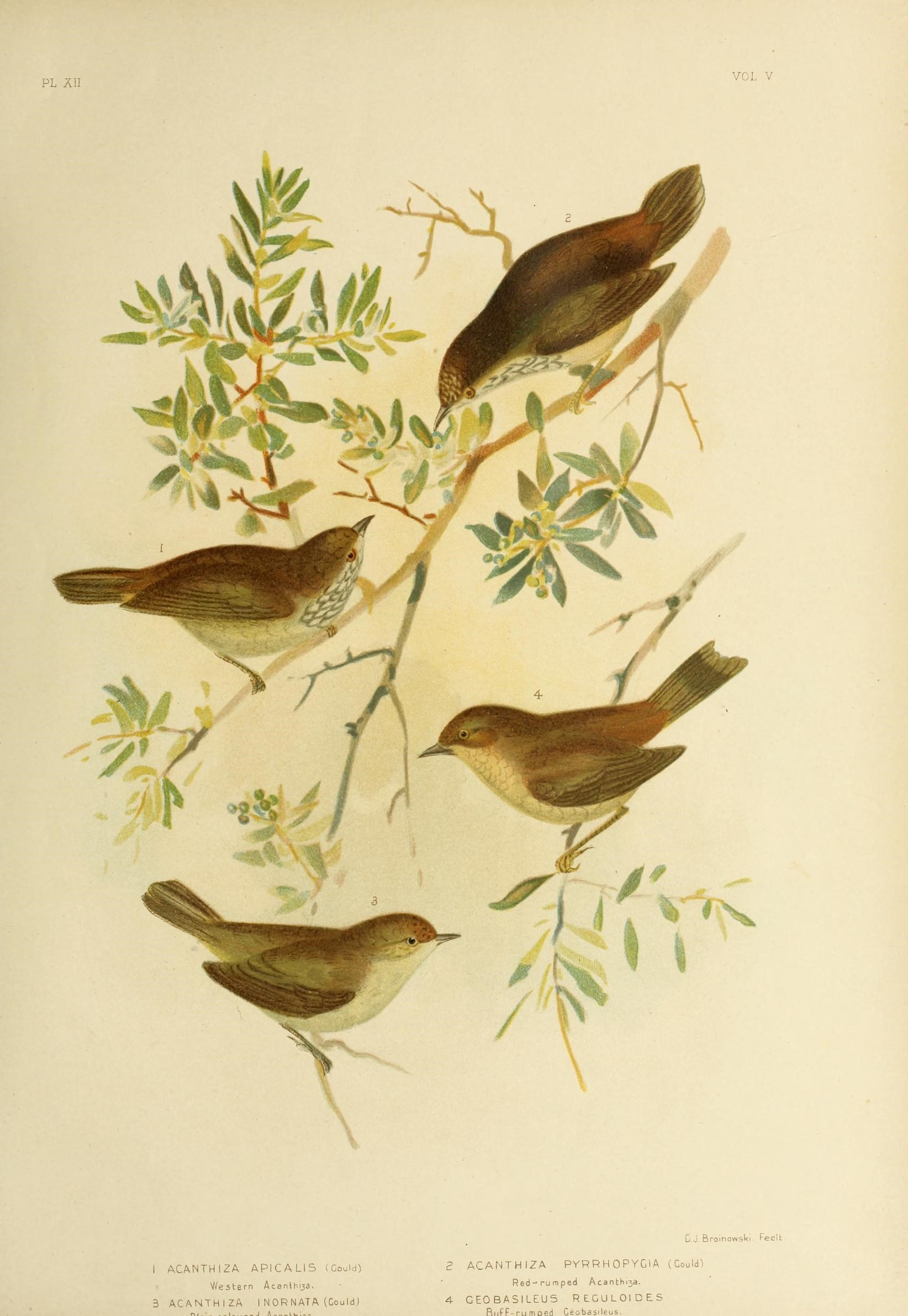 PL All VOL V C.J. Broinowski. Fecit I ACANTHIZA APICALIS (Could) Western Acankhija. 3 ACANTHIZA I N OR NATA (CouldJ ACANTHIZA PYRRH OPYCIA (Couldl Red-rumped Acanthi3a. CEOBASILEUS R ECU LOI D ES Biif F- ru m oed Ceobasileus.